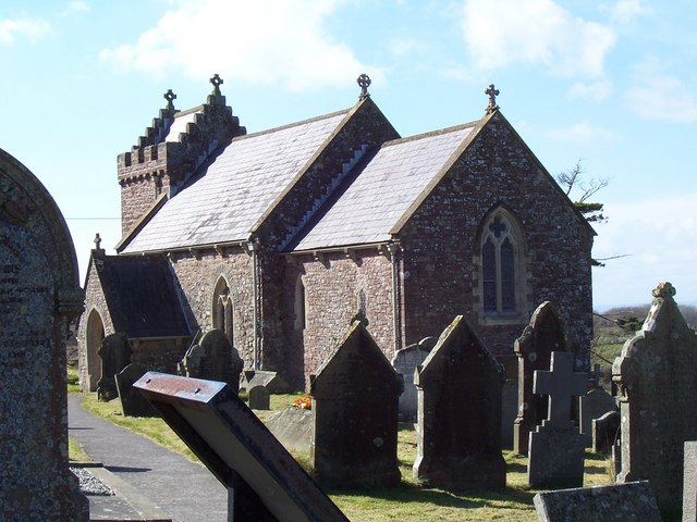 Llanmadoc church The church of St Madoc, Llanmadoc.